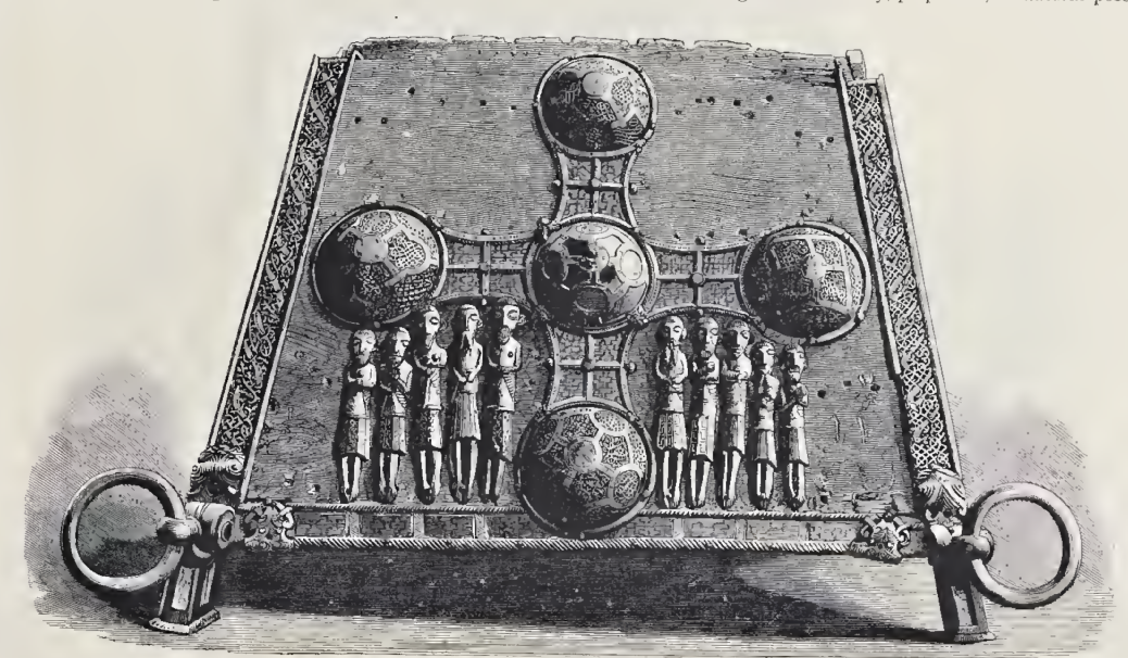 Shrine of Saint Manchan, front view, Illustration from the Art Journal, 1876